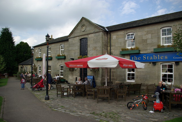 The Stables